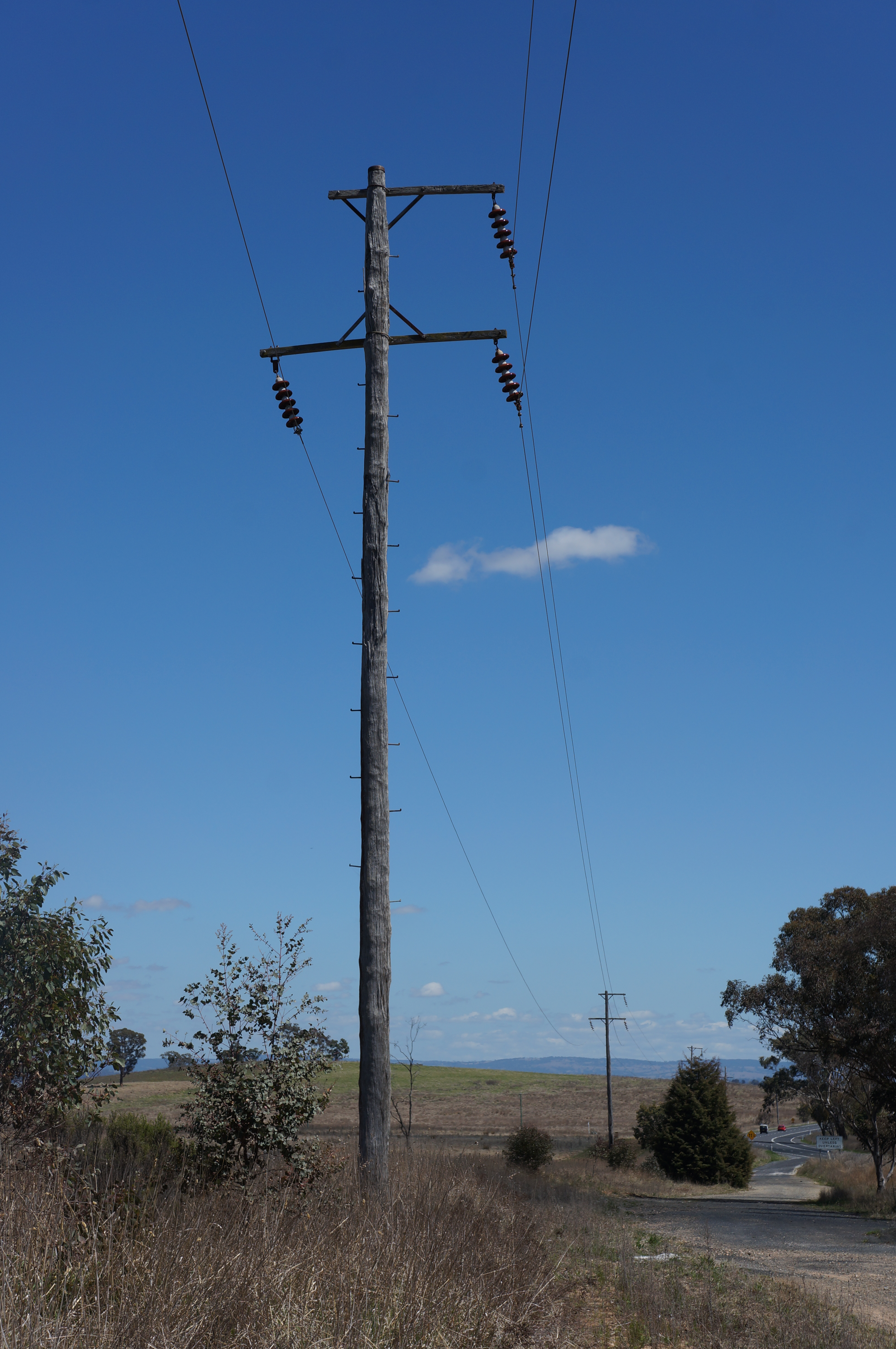 This pole is a part of the original Lithgow to Bathurst 66kV transmission line. The western section of the circuit is still used but has been reduced to 11kV as a local feeder. Evidence points to this pole being an original pole as installed in 1930 by the NSWGR - note the typical New South Government Railway (NSWGR) crossarm attachment technique to pole using U bolts. Generally other constructers used a bolt through the crossarm and direct through the pole. Photo taken in 2012, 82 years after construction, near Walang, 18kms east of Bathurst.